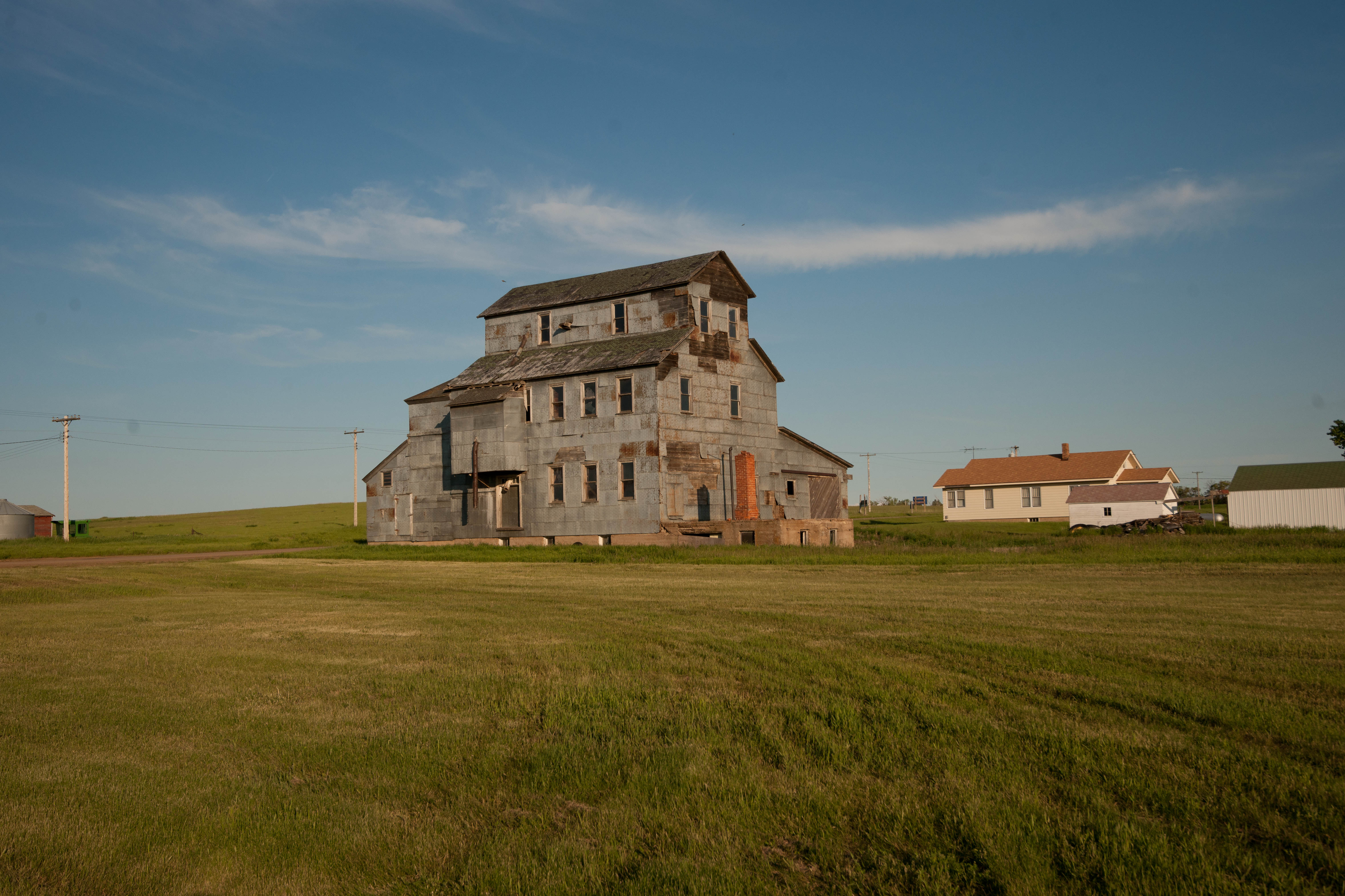 Carson Roller Mill in Carson, North Dakota, listed on the National Register of Historic Places. From